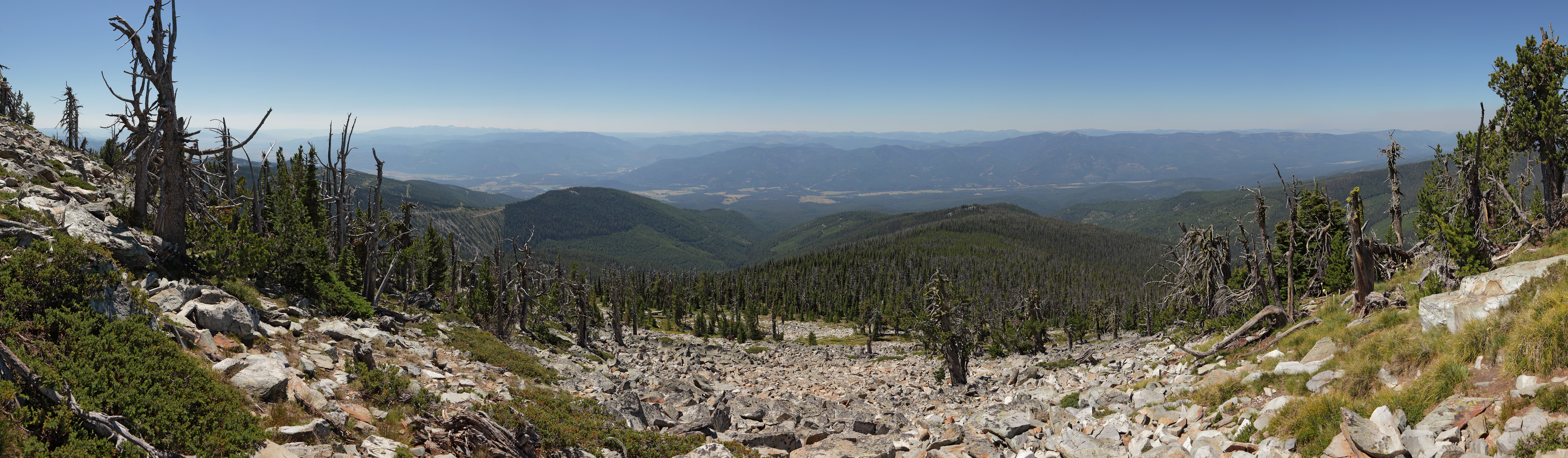 View SW from near the summit of Ch-paa-qn (Squaw) Peak, near Missoula, Montana, USA